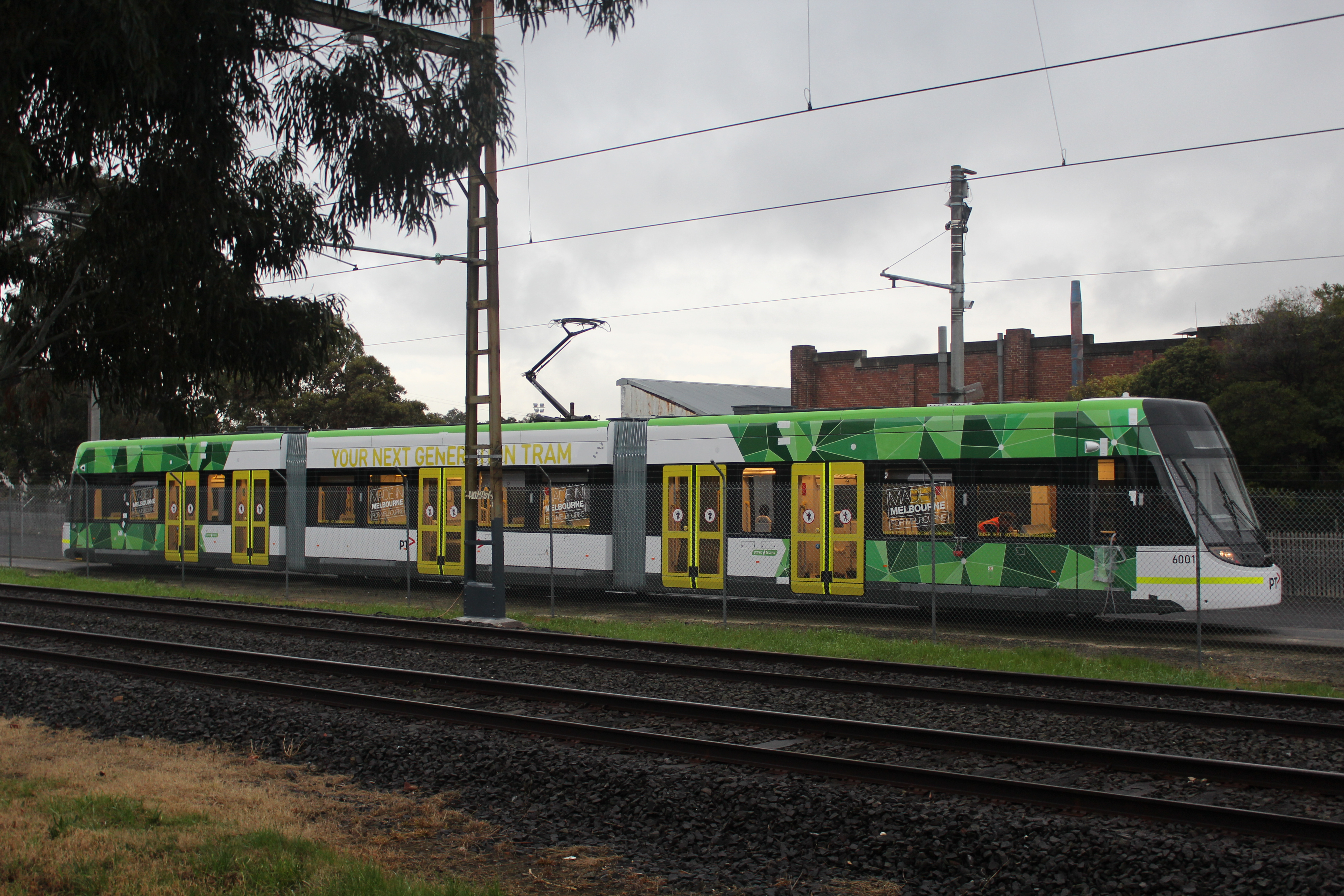 E 6001 in PTV livery on the Preston Workshop test track, September 2013.